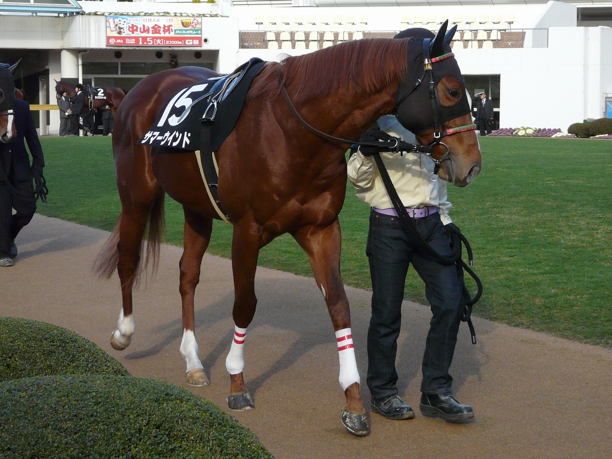 Summer-Wind20100105